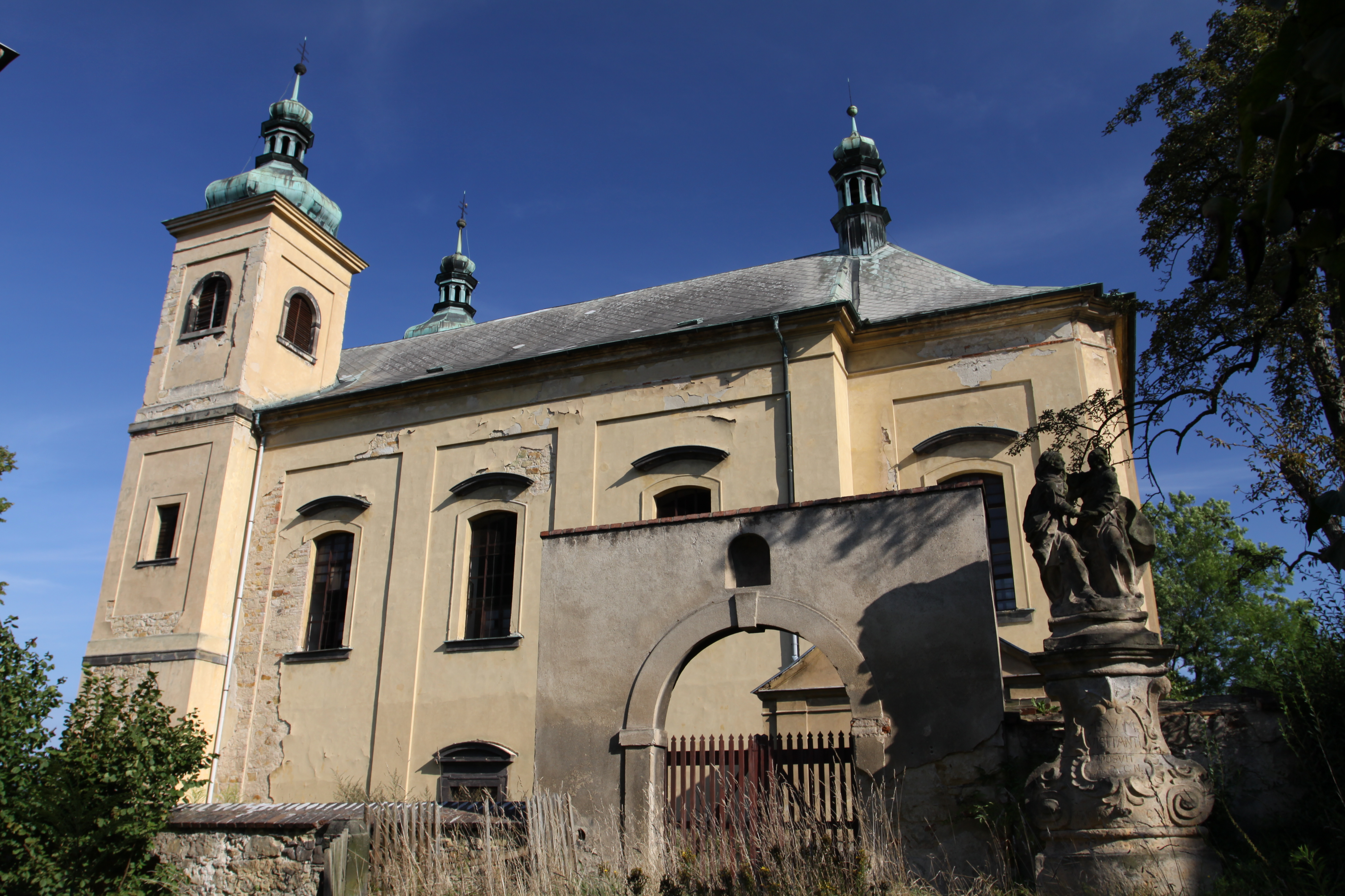 Church of Saint Lawrence in Nebočady close to Děčín town, Děčin District, Czech Republic